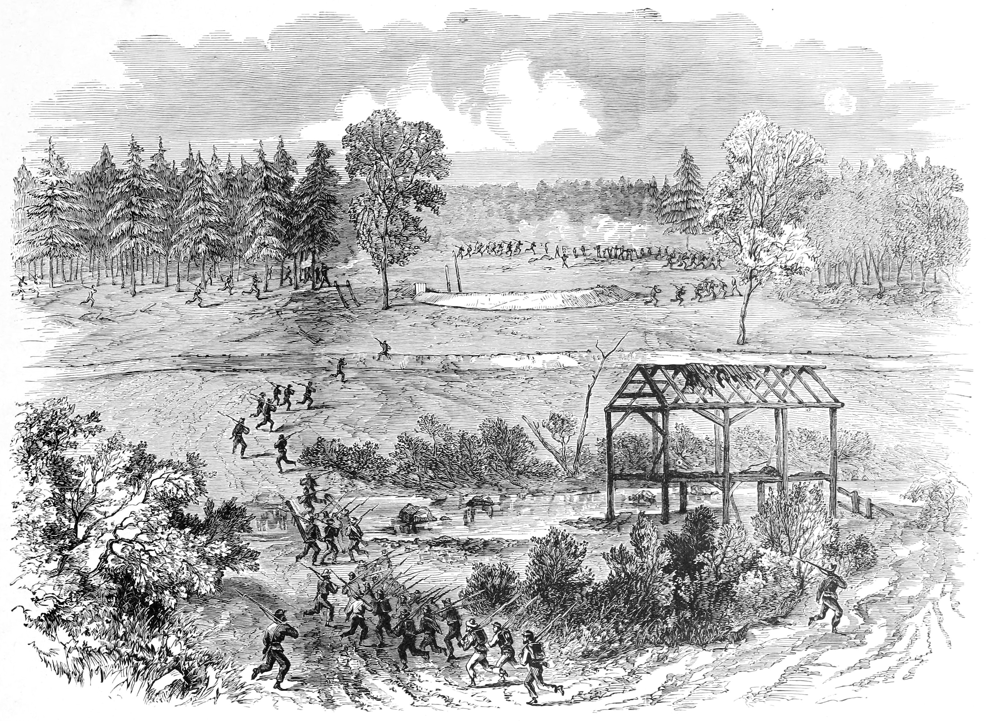 Engraving captioned "The Army of the Potomac Battle of Hatcher's Creek, Va., October 27th, 1864--The Second Corps, under Major General Hancock, flanking the Confederate Works at Armstrong's Mill." From Frank Leslie's Scenes and Portraits of the Civil War (1894) available at the Internet Archive. (image cleaned and cropped).